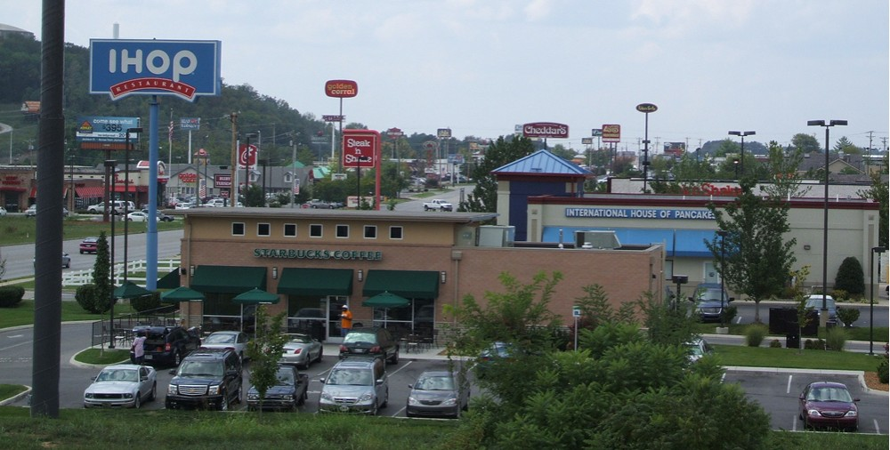 "Restauraunt Row" on Interstate Drive in Cookeville, Tennessee.